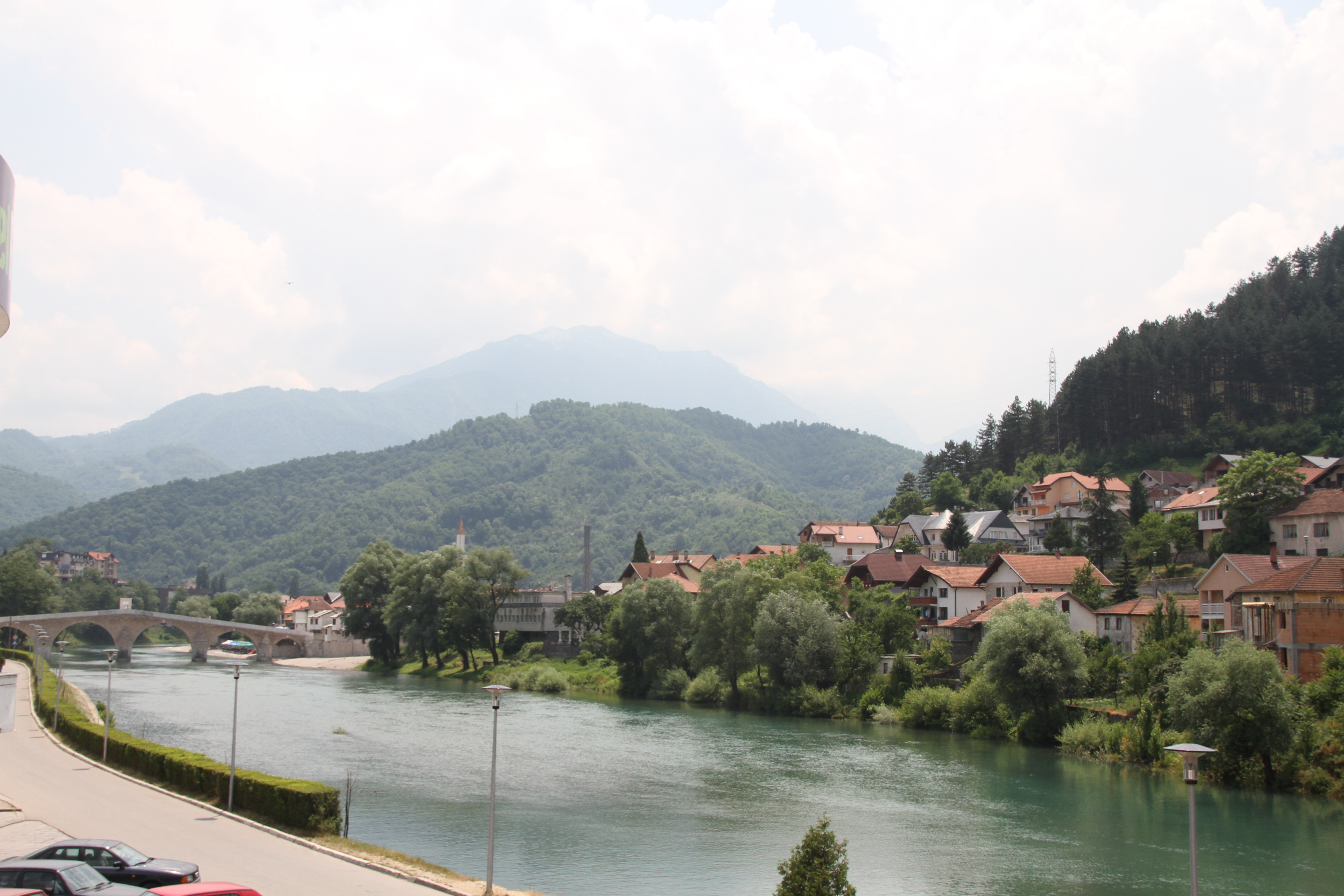 Scenic view from the Konjic municipality, south-central Bosnia-Herzegovina. This is the Neretva river in Konjic city.